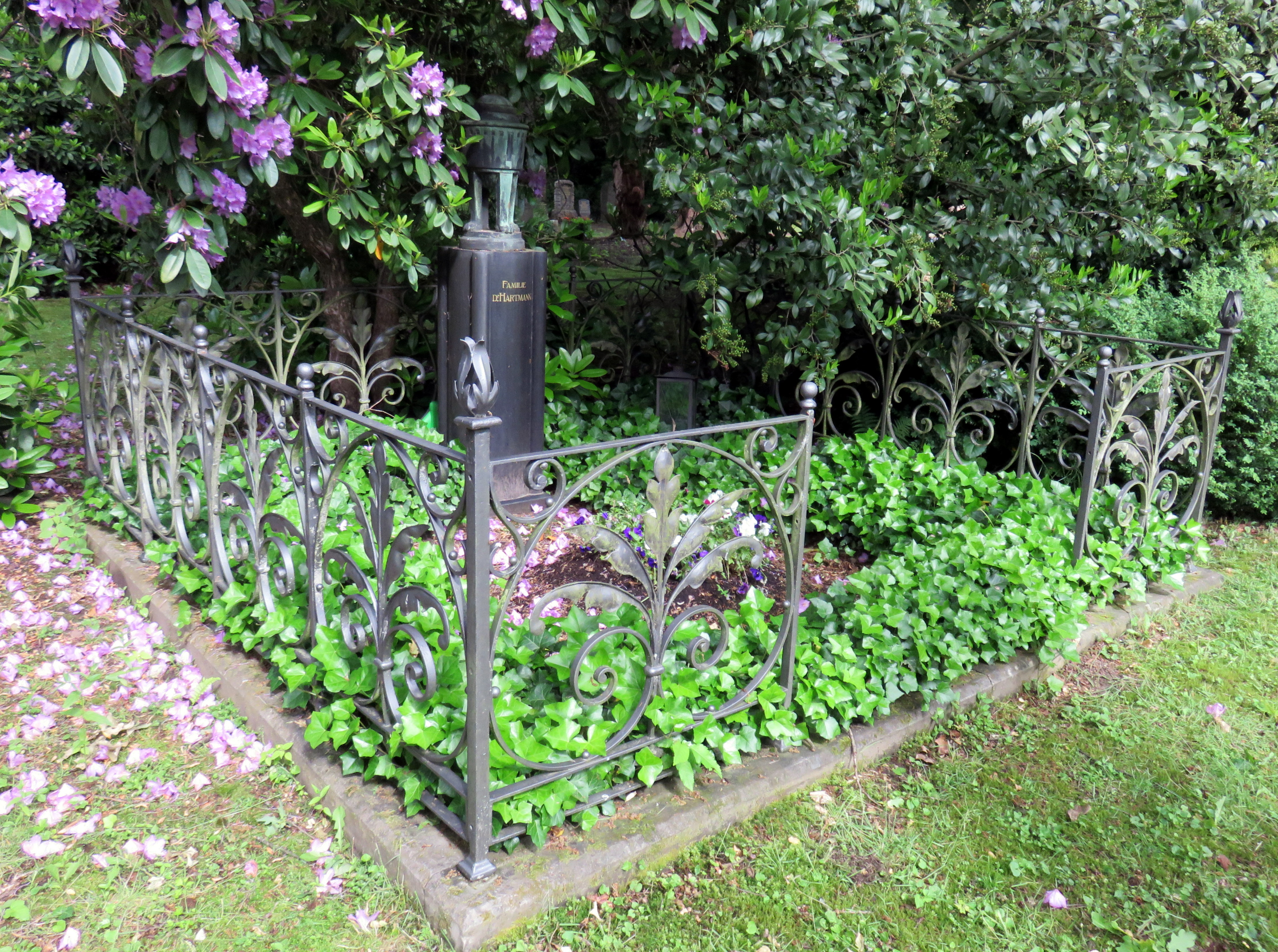 Familygrave of German physician and co-founder of “Hartmannbund”, Hermann Hartmann, location: Friedhof Ohlsdorf, map AF 31 (north of chapel 6).